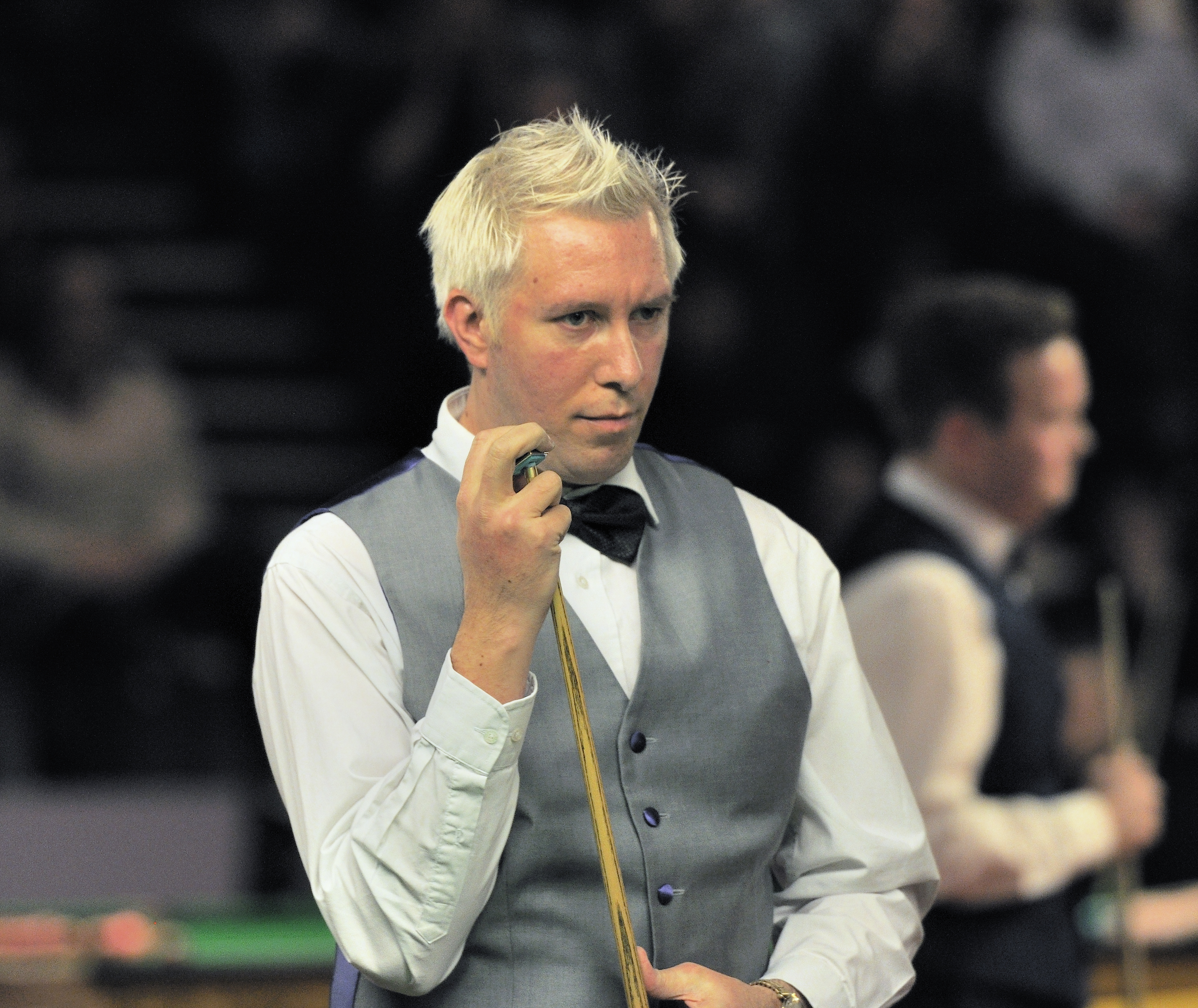 Picture taken in Berlin during the Snooker German Masters in 2014. Dominic Dale.